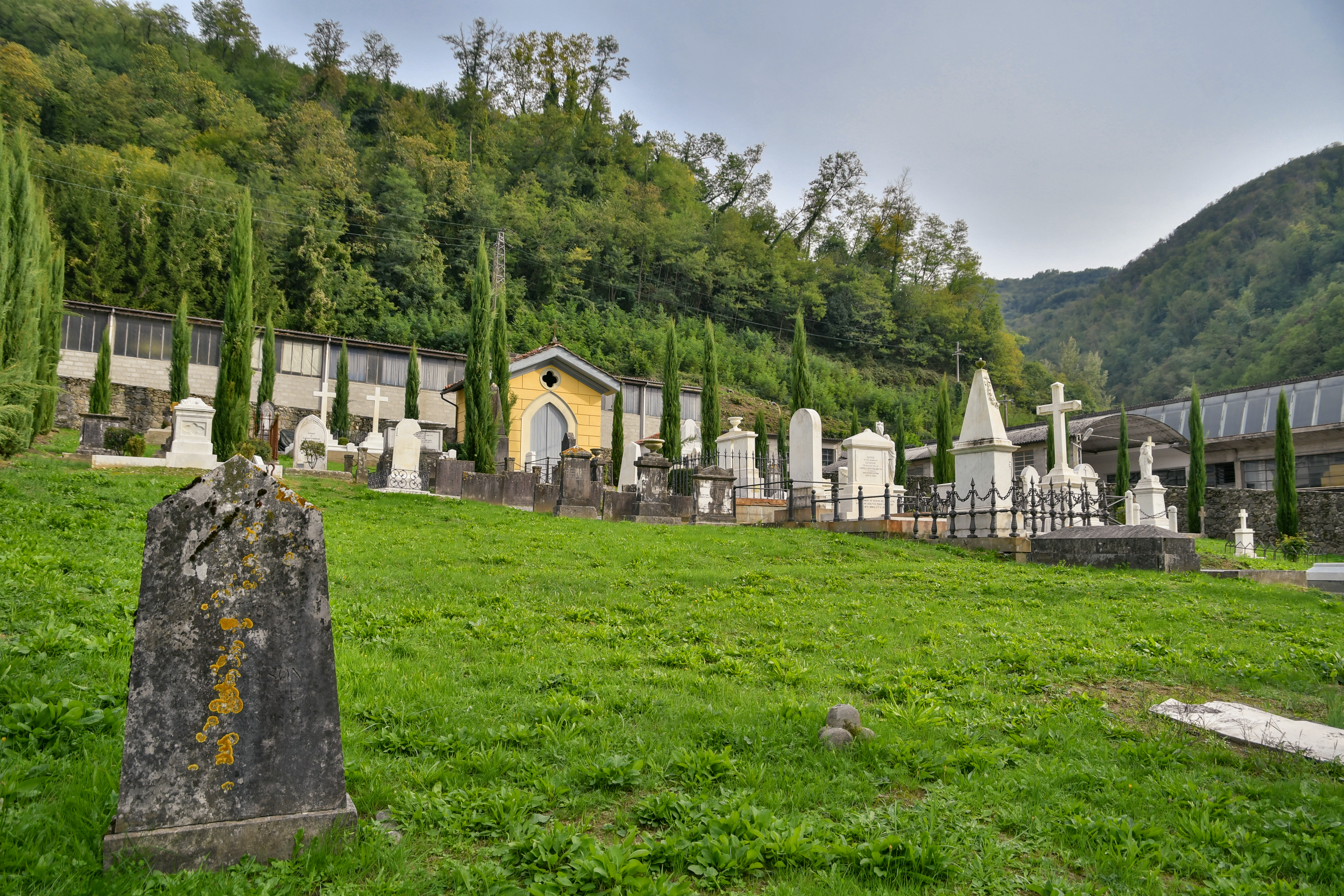 This is a photo of a monument which is part of cultural heritage of Italy.